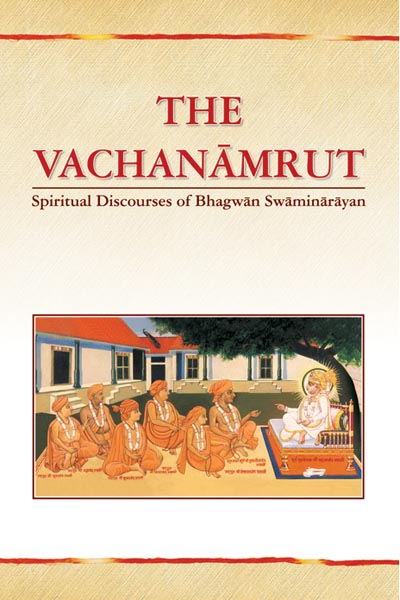 English version of the Vachanamrut